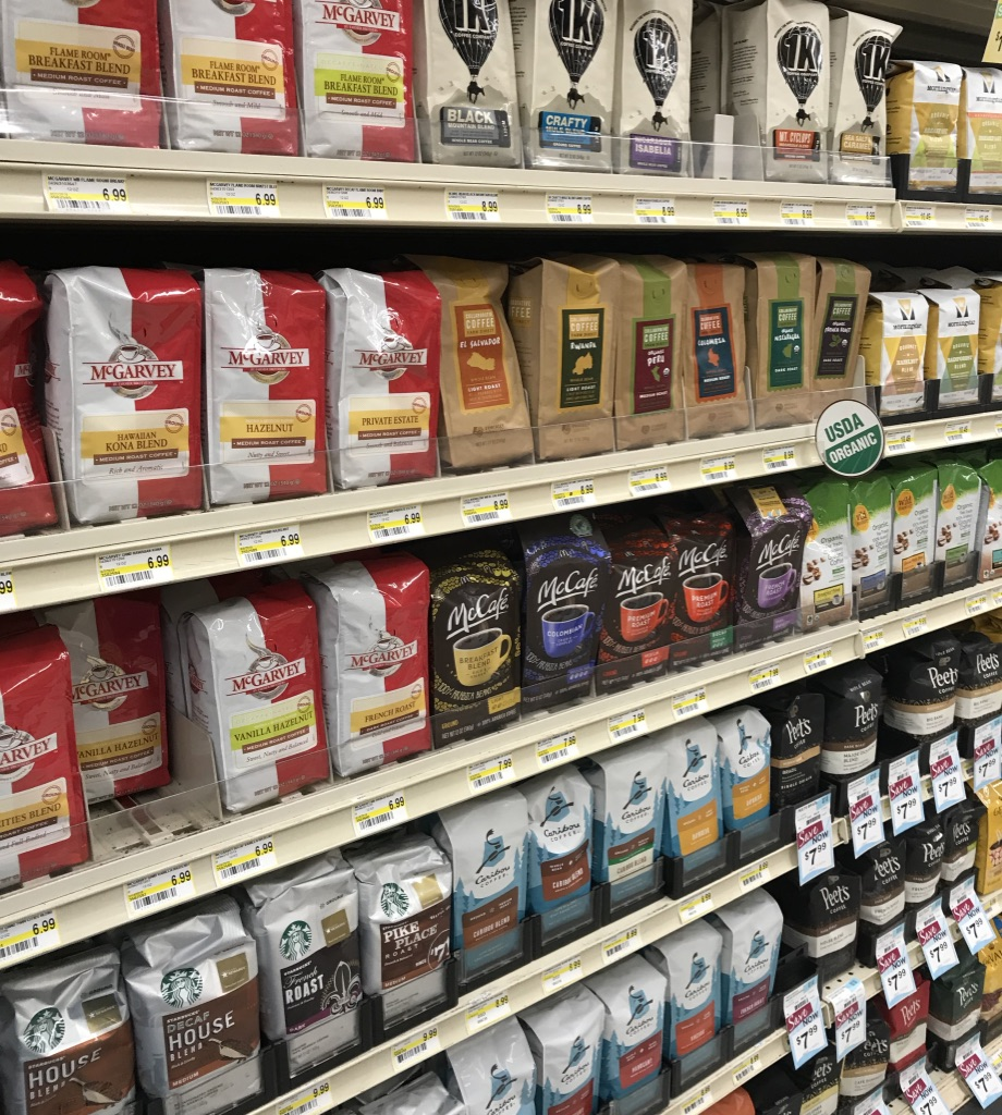 Bags of coffee at a grocery store